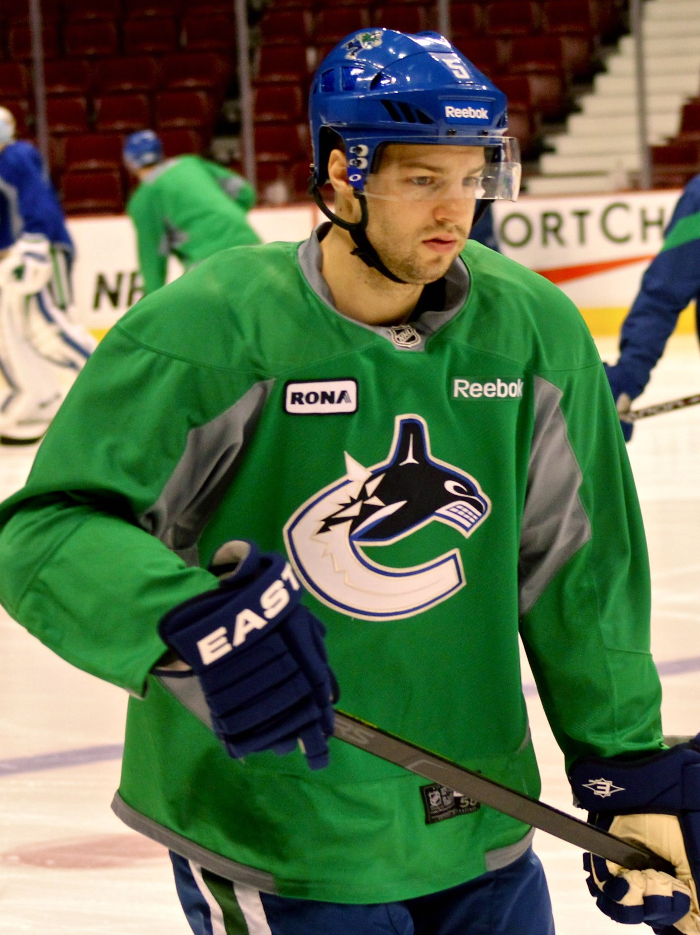 Vancouver Canucks defenceman Marc-Andre Gragnani during a practice on March 9, 2012.